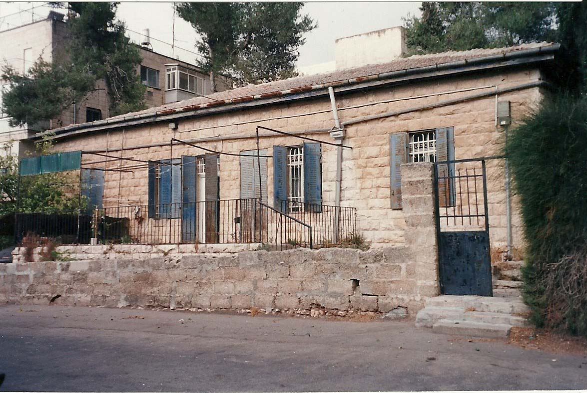 the house of rabi Eliahu Lopez